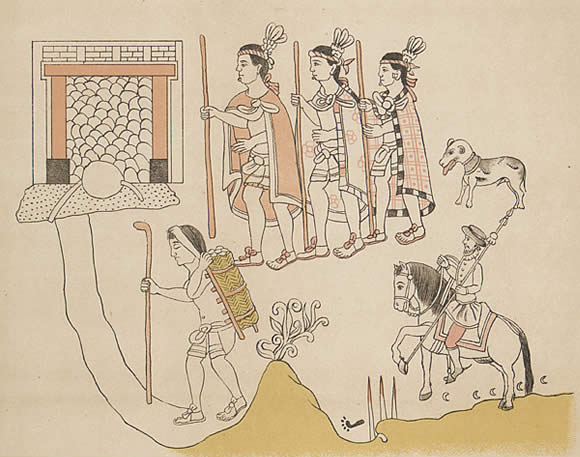 The entrance to Chalco, on the way to the Aztec capital. The single Spaniard is accompanied by three Tlaxcalan soldiers, plus an Indian carrier. With few exceptions the murals depict the Spanish on horseback armed with lances, as in this scene. The dog is one of the oversized mastiffs accompanying the Spaniards.